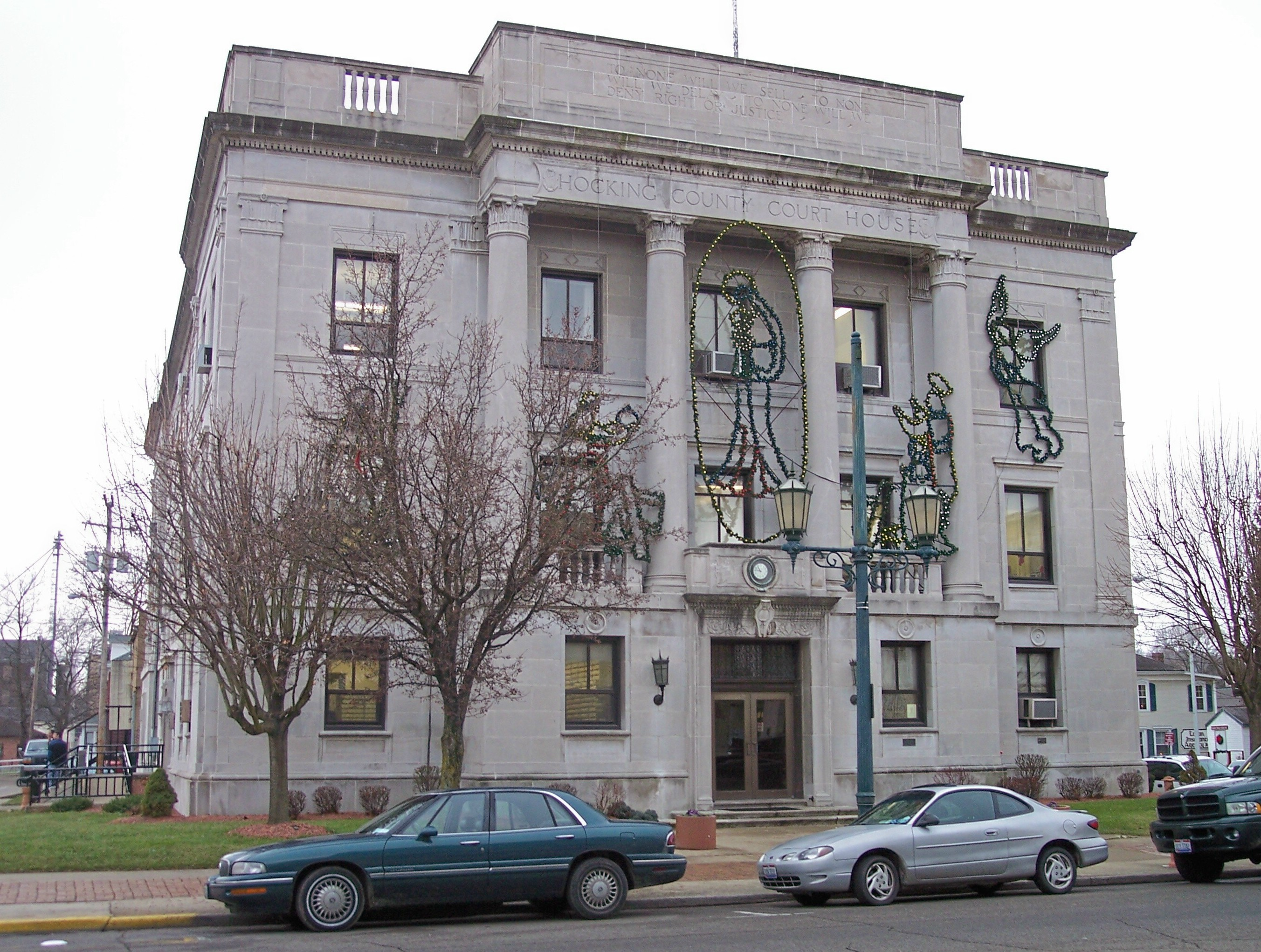 The Hocking County Courthouse in Logan, Ohio. Contributing property to the Logan Historic District, listed on the National Register of Historic Places April 19, 2010.